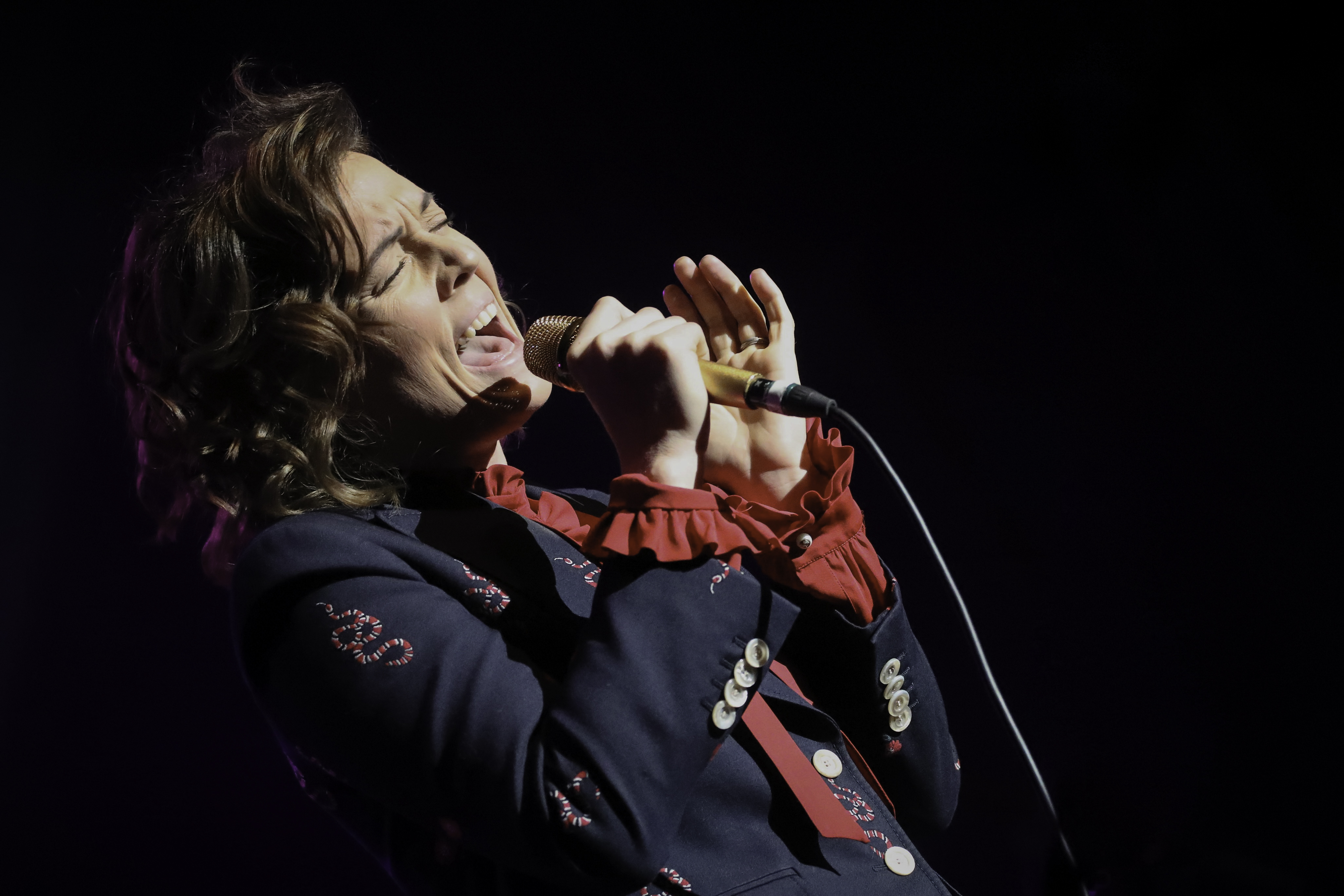 Brandi Carlile - State Theater Minneapolis - The Current